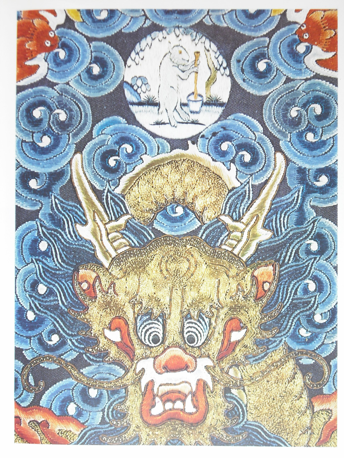 A Chinese dragon; a medallion above it shows the White Hare of the Moon, at the foot of a cassia tree, making elixir of immortality